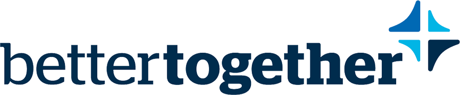 Logo of Better Together 2012 Limited.